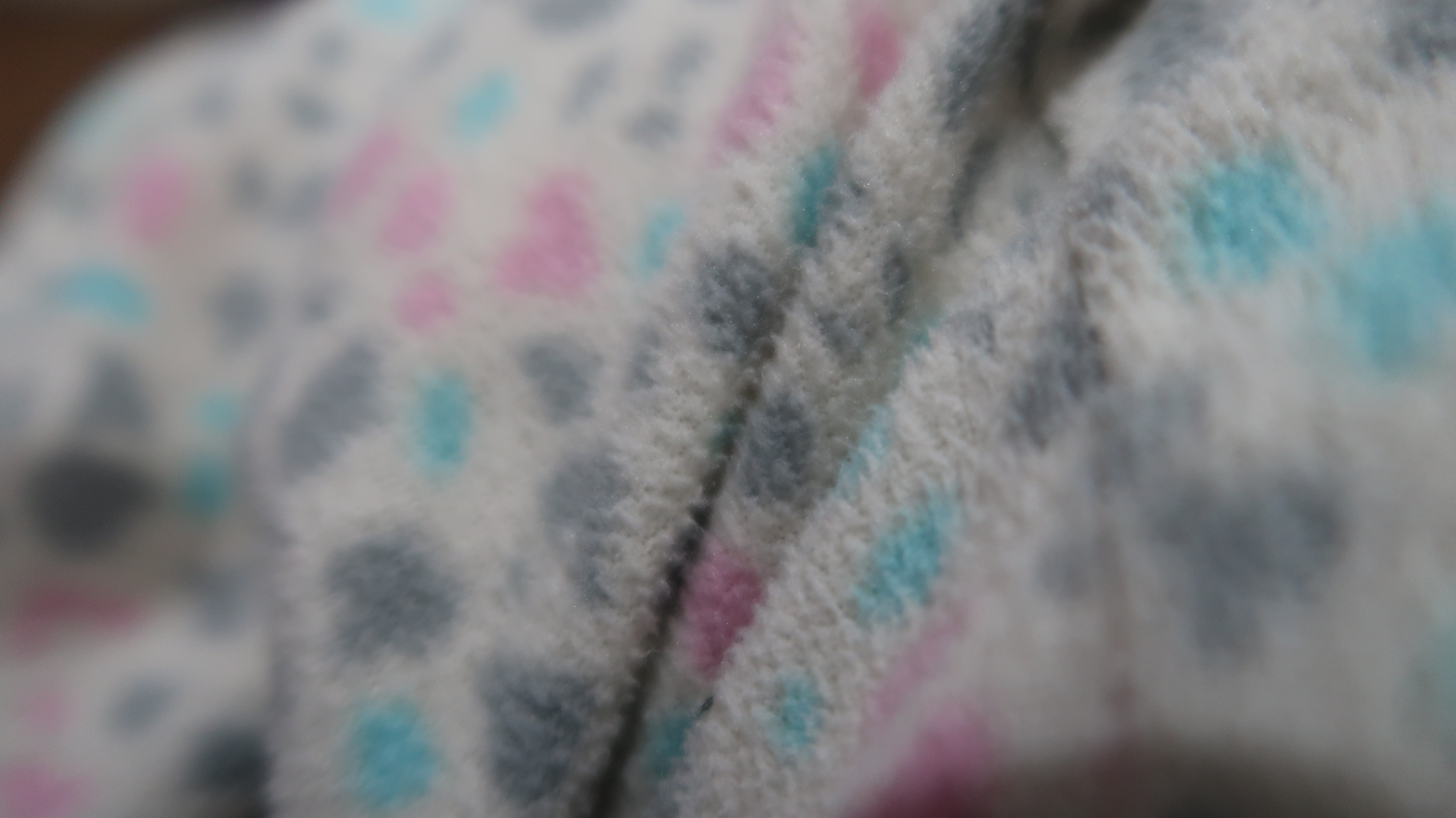 Textured